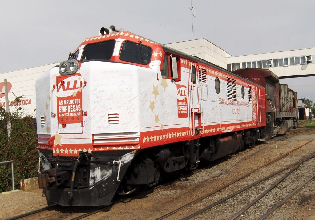 Diesel-Electric Locomotive B12 B-B # 4098 - built by General Motors Diesel to EFVM in 1953 transferred to RFFSA in 1968, currently ALL. Curitiba-PR-Brazil.